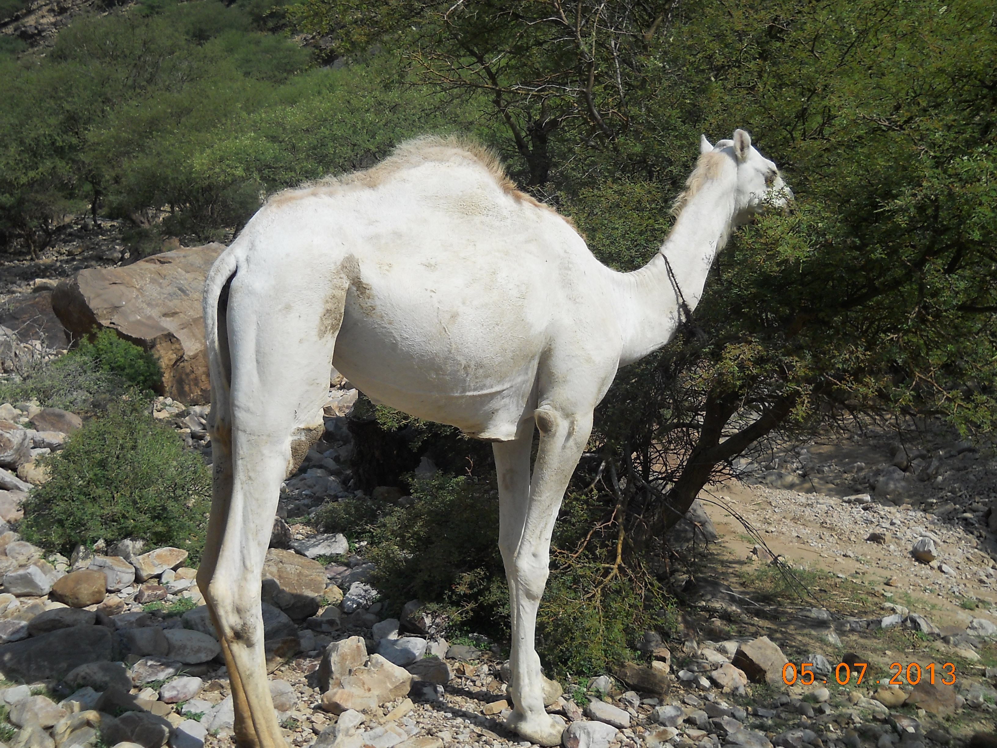 A picture of a camel that is belong to Kohi breed of camel they are mostly found in burg pusht and the area of koh e suleman.